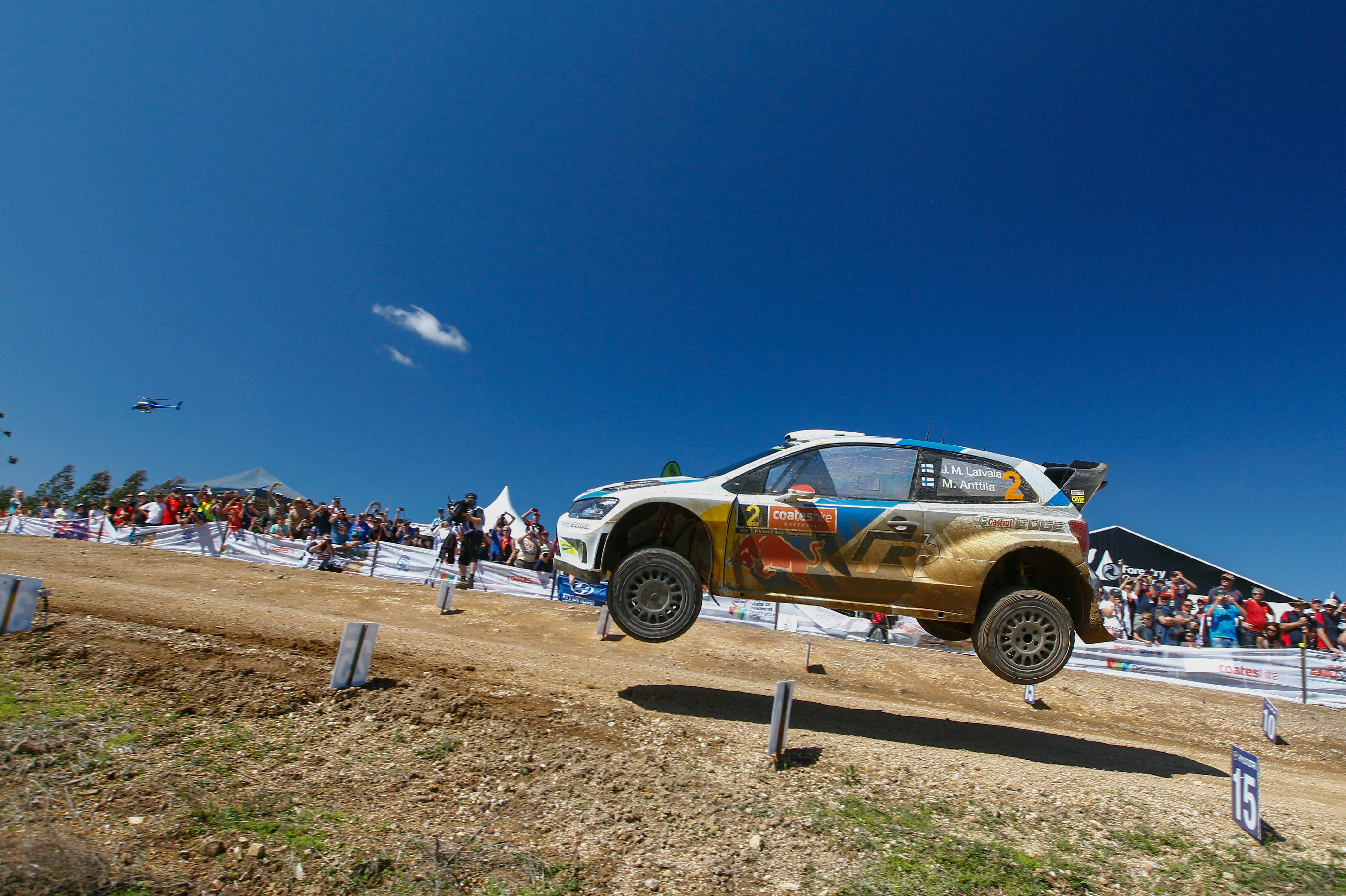 Jari-Matti Latvala and co-driver Miikka Anttila in their Volkswagen Polo R WRC at the 2014 Rally Australia.